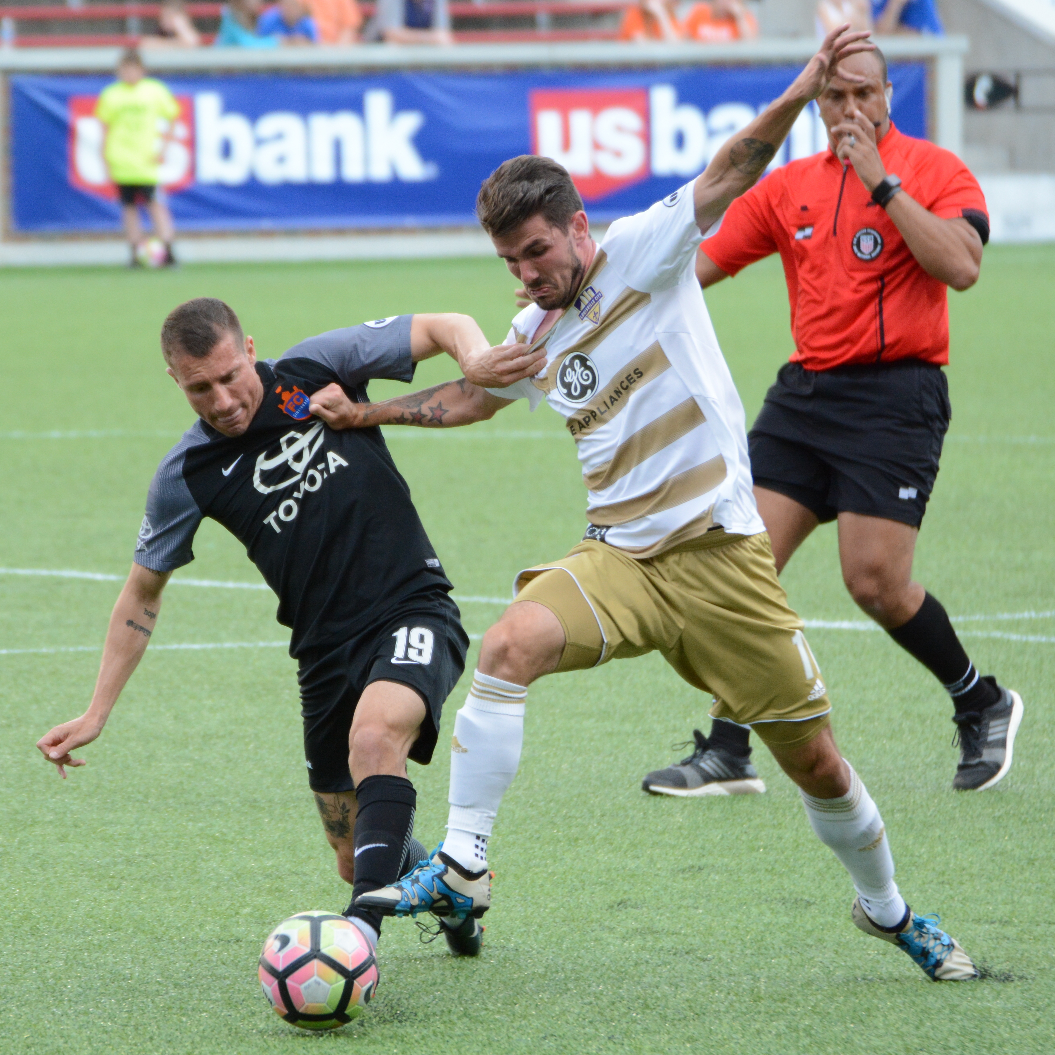 Corben Bone of FC Cincinnati and Niall McCabe of Louisville City FC fight for possession while referee Brandon Artis looks on in anticipation of a foul call. Taken at a 2017 U.S. Open Cup Third Round match between the River Cities Cup rival clubs at Nippert Stadium in Cincinnati, Ohio on May 31, 2017.